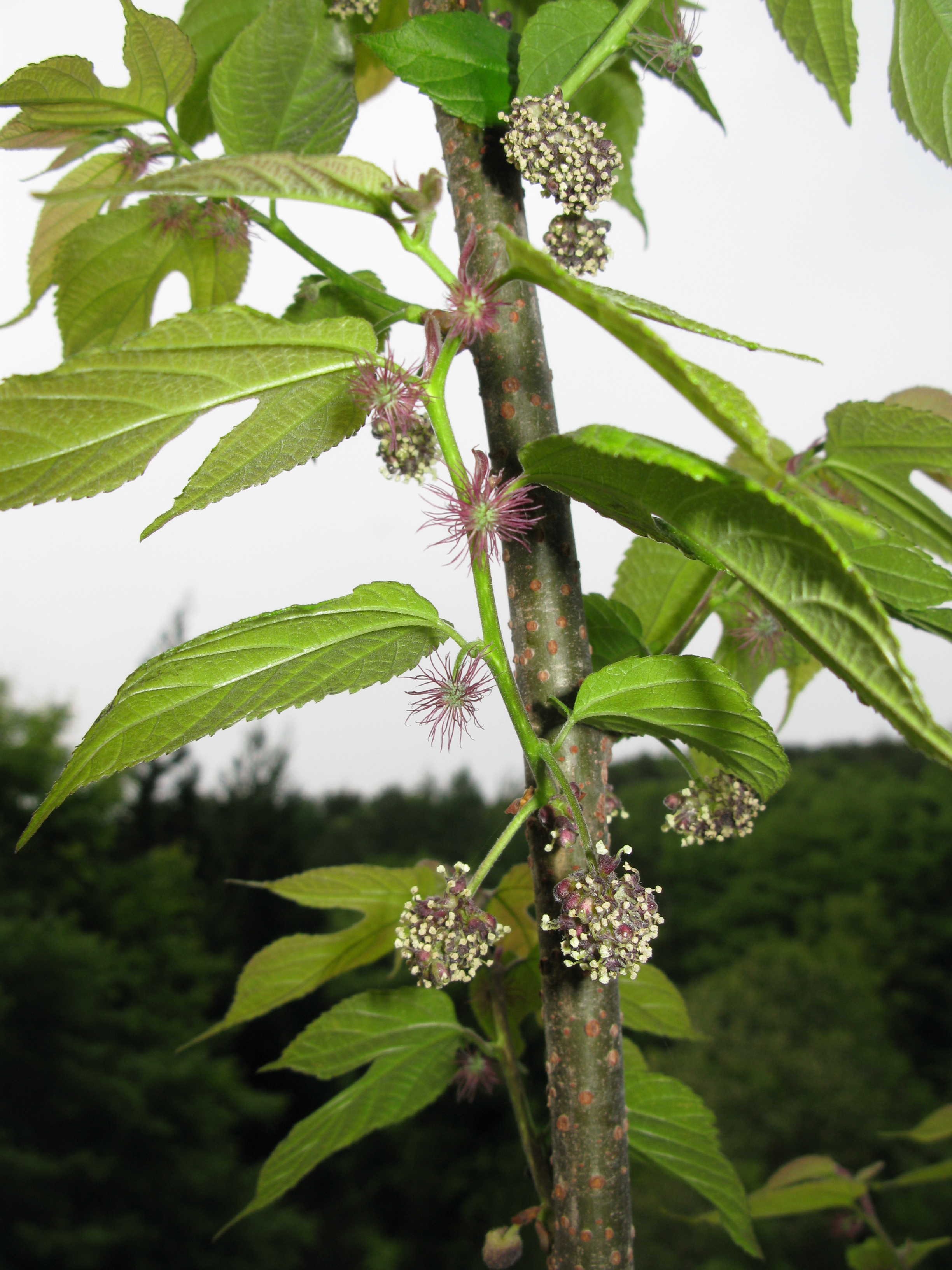 Broussonetia kazinoki, Aizu area, Fukushima pref., Japan